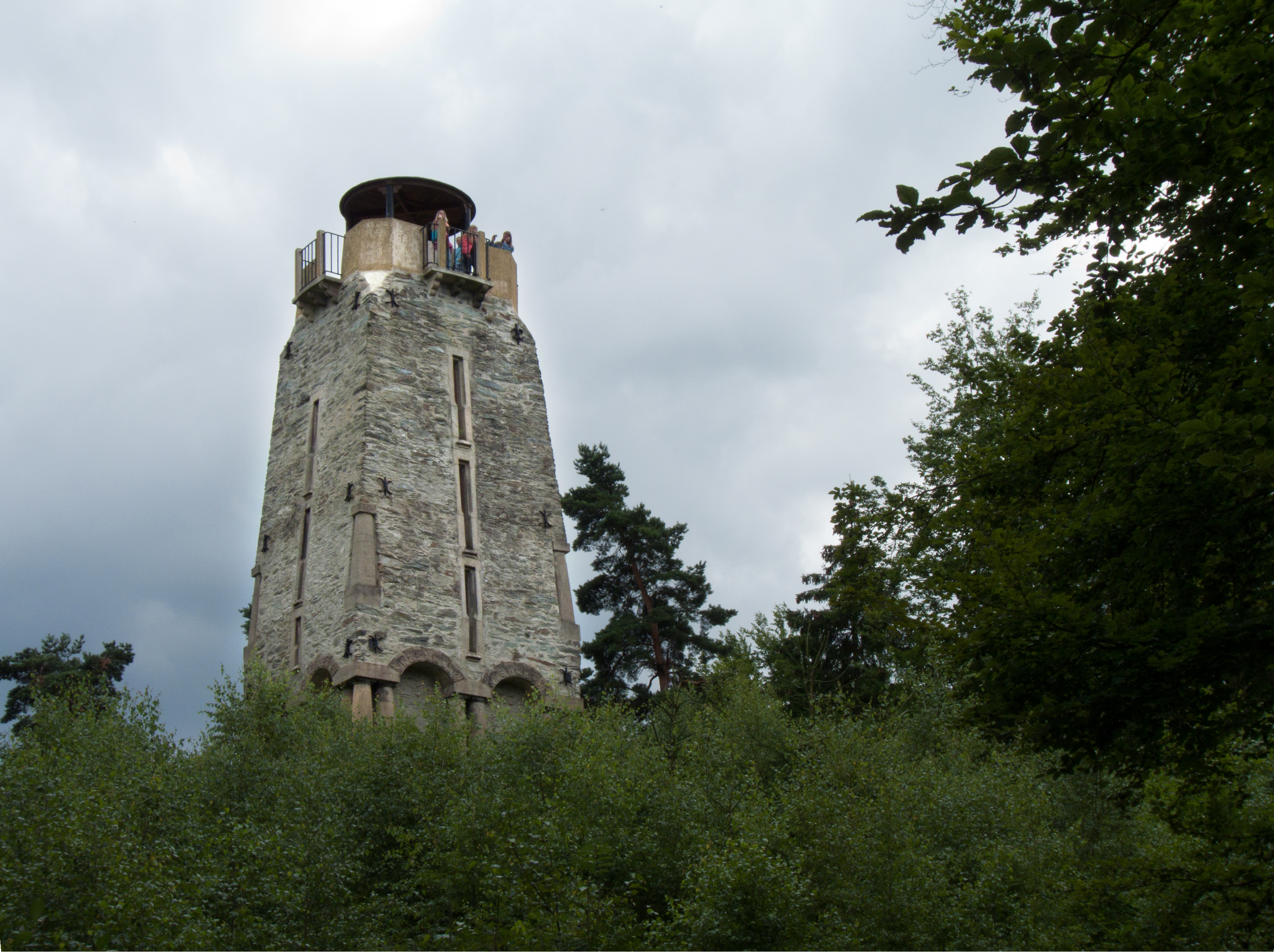 Observation tower Bismarckova rozhledna, Cheb District, Czech Republic